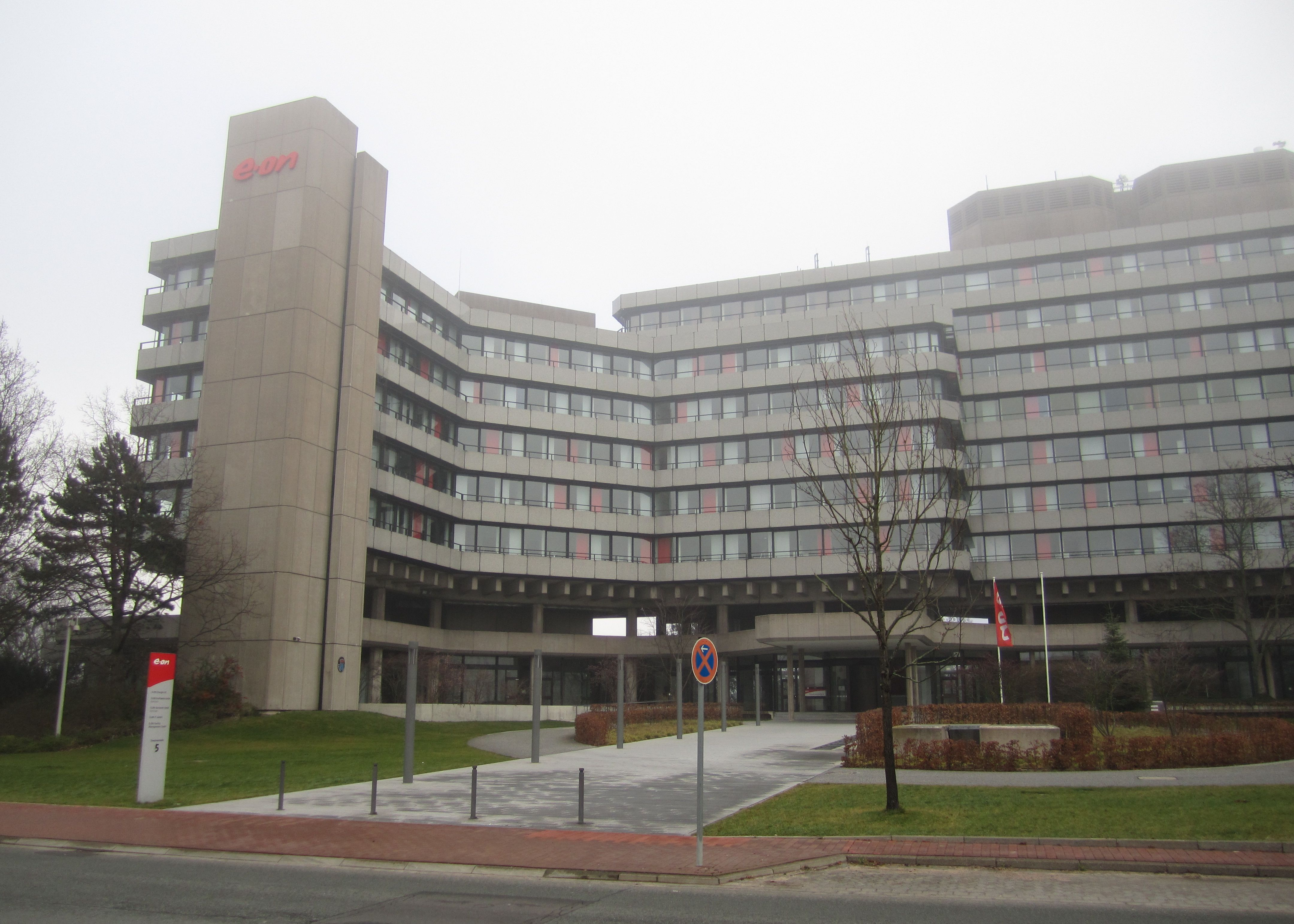 Office building of E.ON in Hannover, Germany.